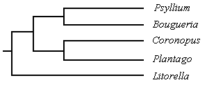 Cladogram of Plantago subgenera